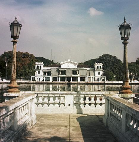 The riverfront view of Malacañang Palace in 1940 as seen from Malacañang Park across Pasig River, south of the palace.